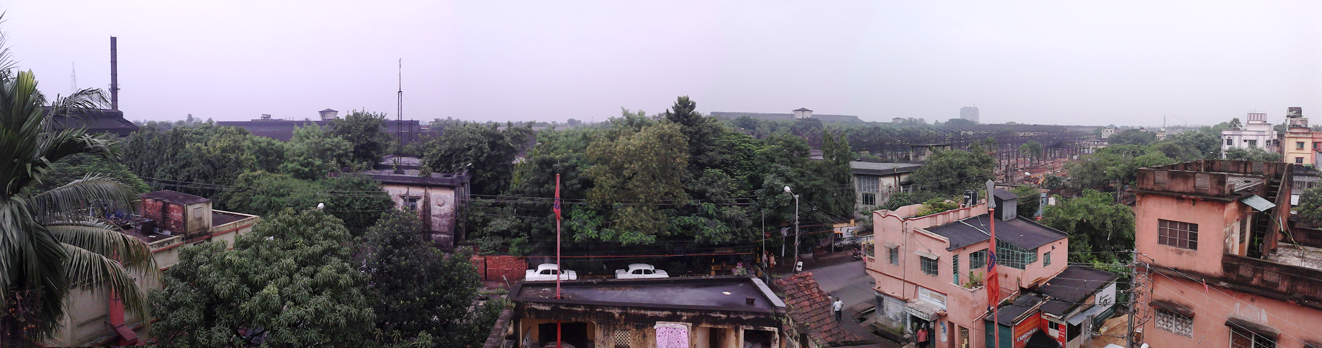 The Guest Keen Williams Limited or GKW gate area on Andul road, Howrah. This is a combination retouched photographs of four shots made by 'Photoshop'. This media file is uploaded with India loves Wikipedia event.